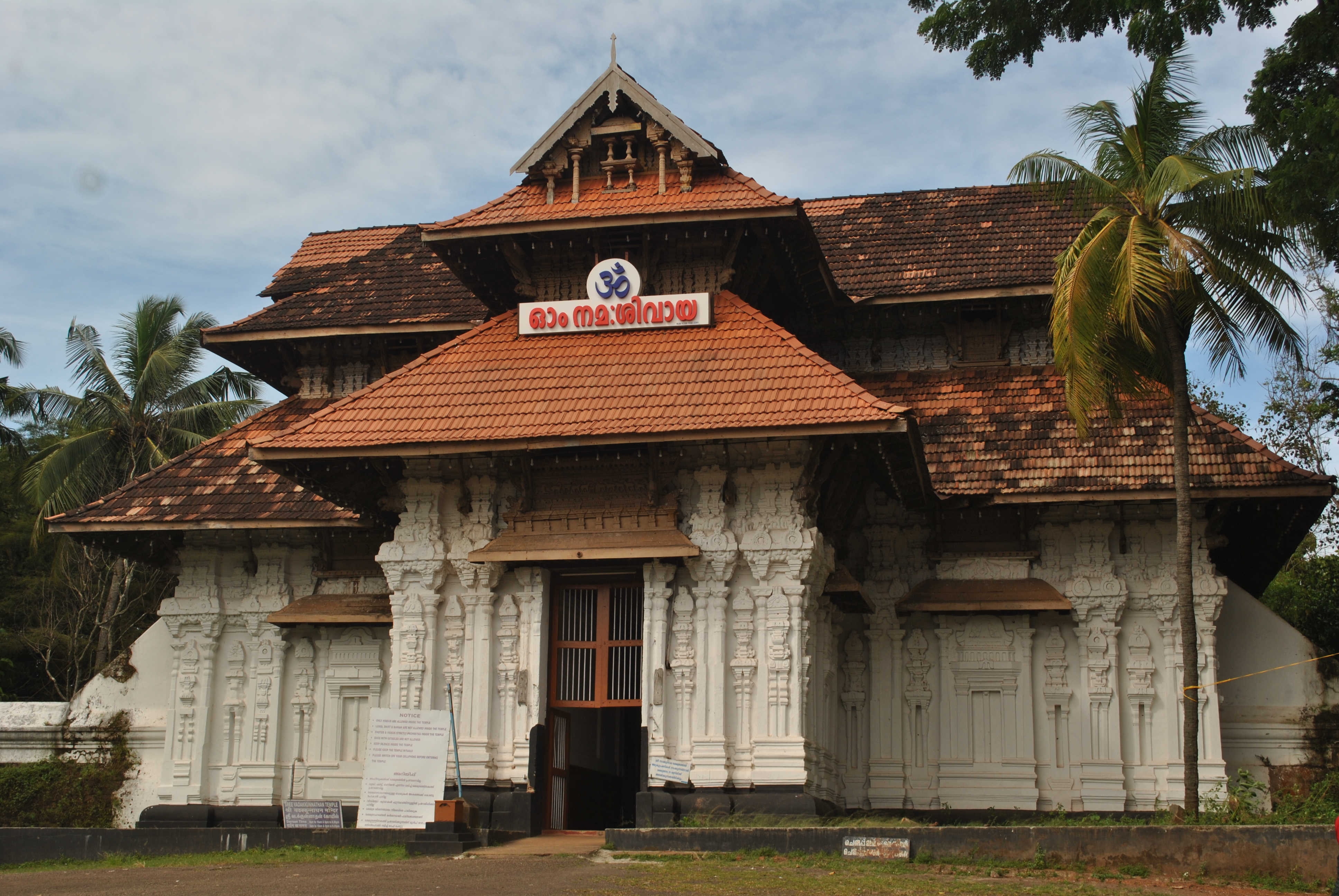 Mahadeva temple